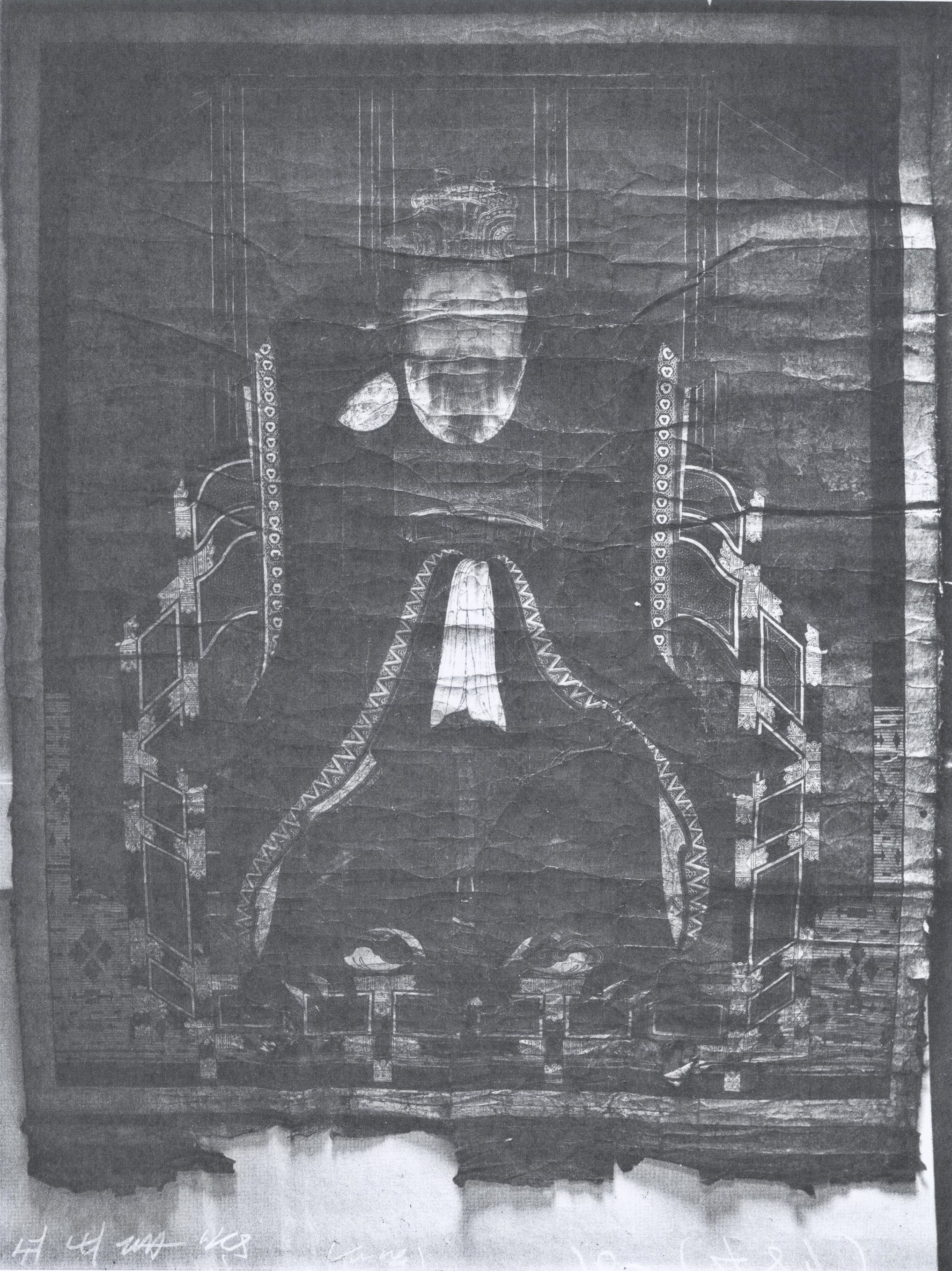 A photograph of a glass plate of Portrait of King Gongmin, which had been in the Hwajangsa(華藏寺) temple in Daewon-ri, Jinseo-myeon, Jangdan-gun, Gyeonggi-do, now in possession of the National Museum of Korea